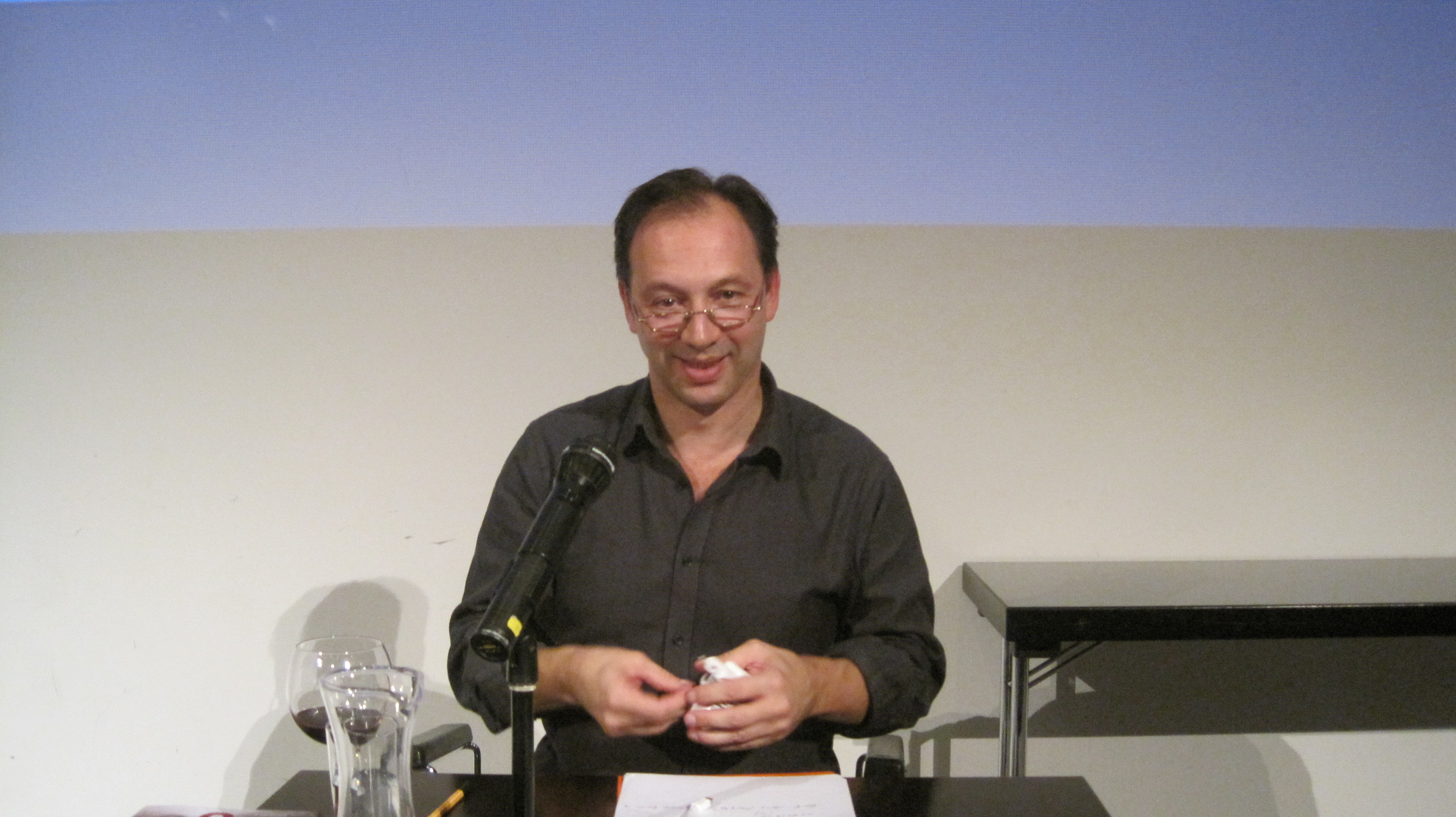 German writer Wolfram Fleischhauer, 2011.